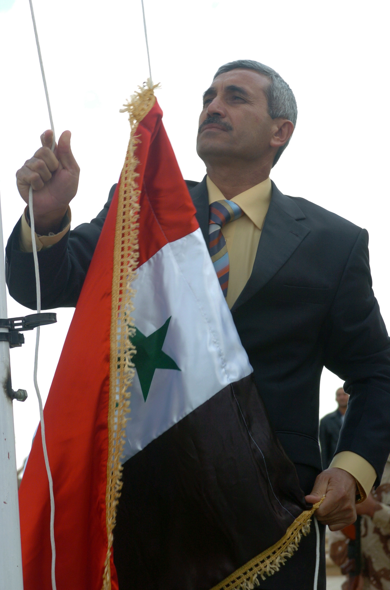 TIKRIT, Iraq (Nov. 22, 2005) -- The honorable Abdullah Hussein, Deputy governor of Salah Ad Din Province, raises the Iraqi flag in a symbollic moment in history as the people of Iraq took control of Forward Operating Base Danger in Tikrit Nov. 22. (U.S. Army photo by Sgt. Dallas Walker)